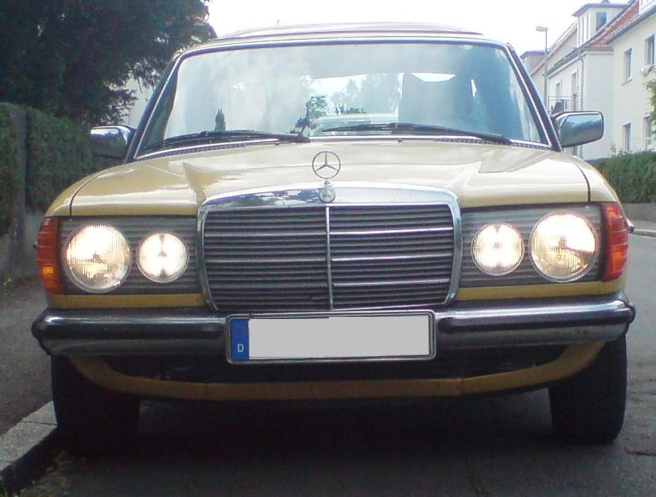 Front of the W132, 1. series.